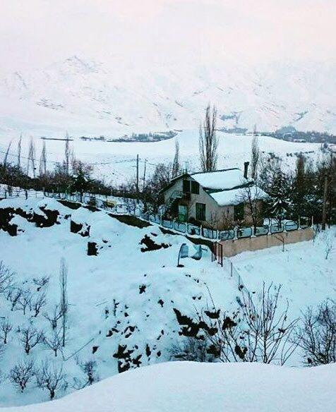 It shows a view of Nasir Mahmoudi and his family's house